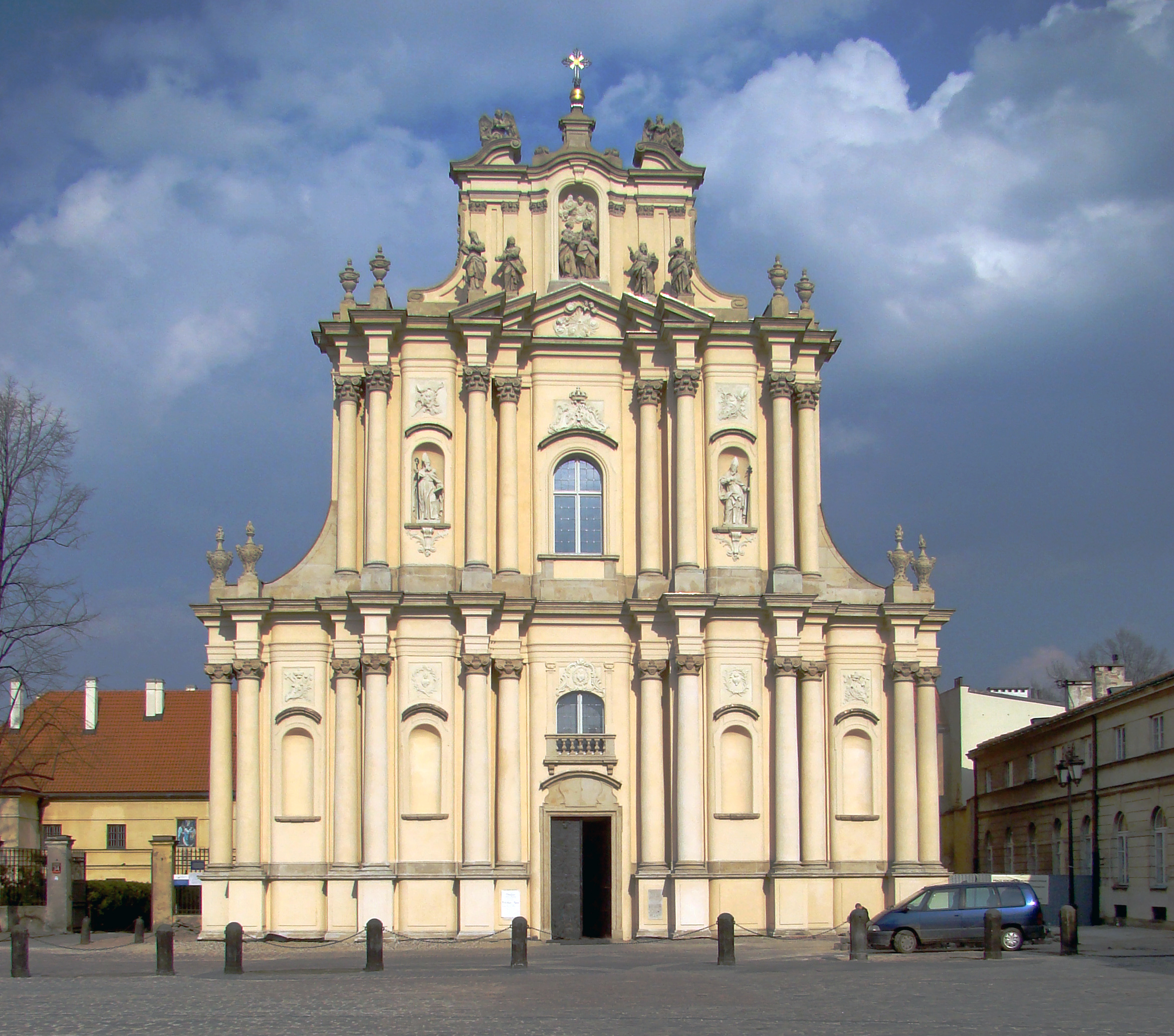 Nuns-of-the-Visitation Church, Warsaw, main facade after renovation, March 2010